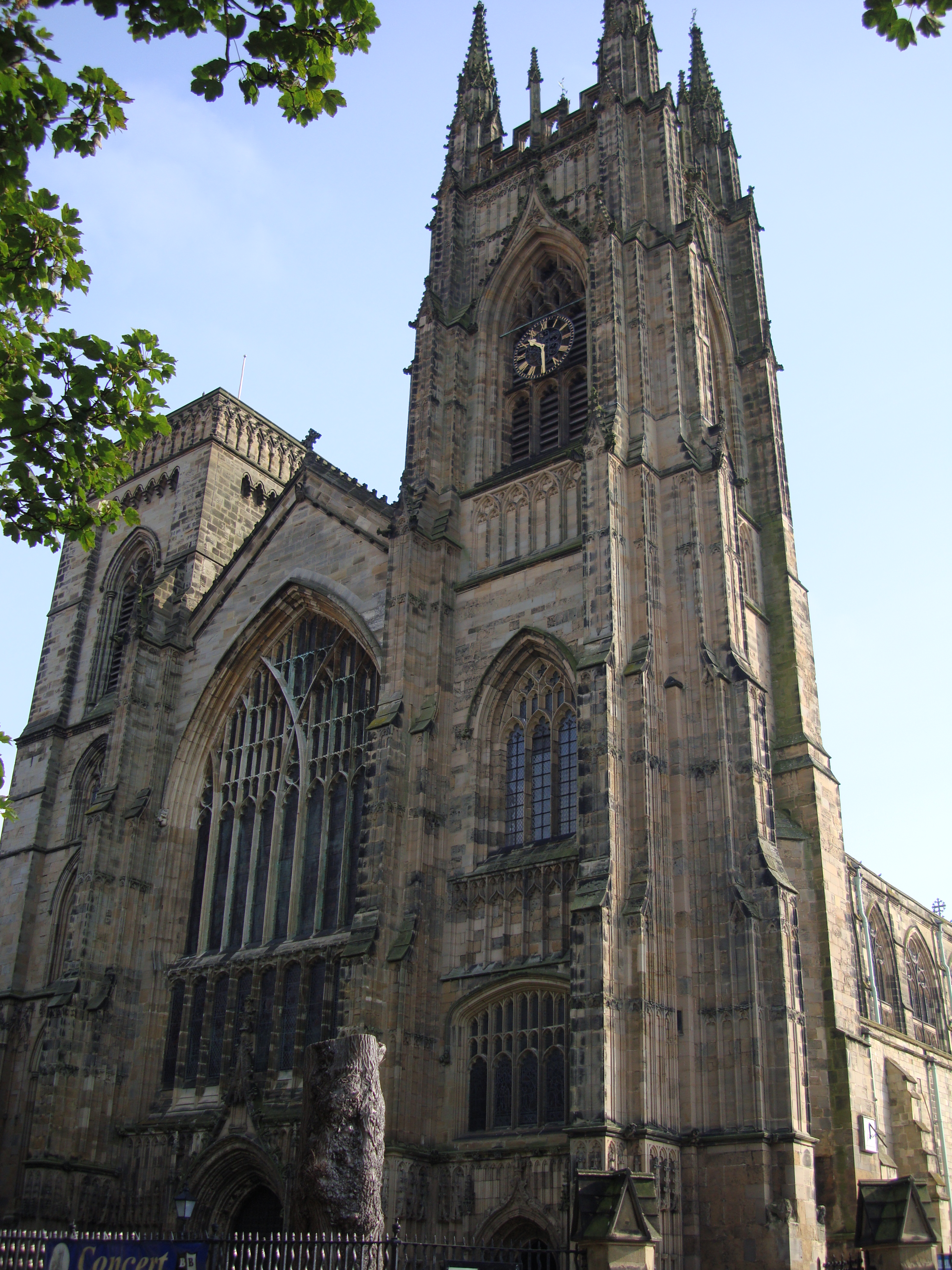 Photograph of Bridlington Priory, Bridlington, East Riding of Yorkshire, England.